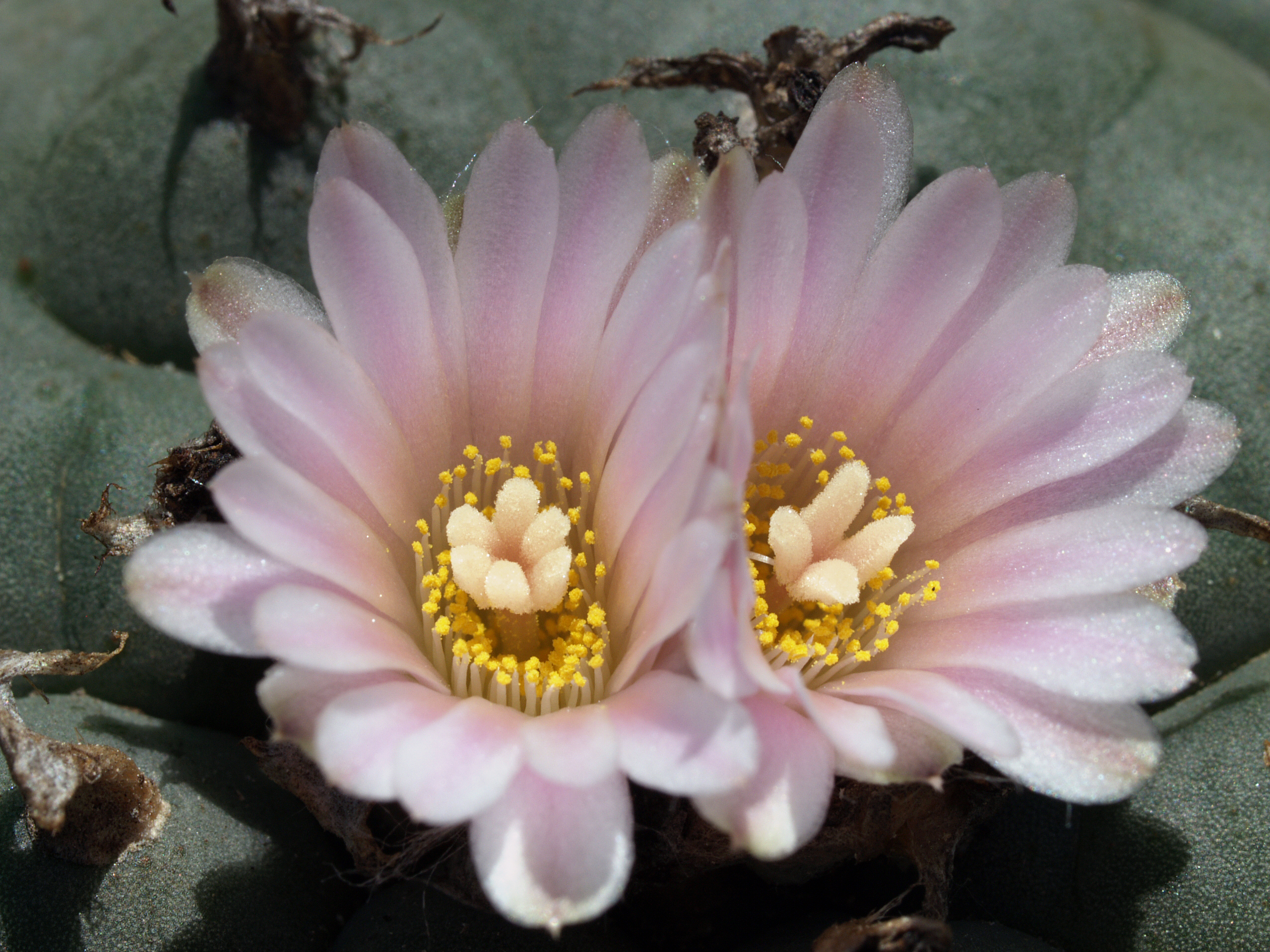 Lophophora williamsii